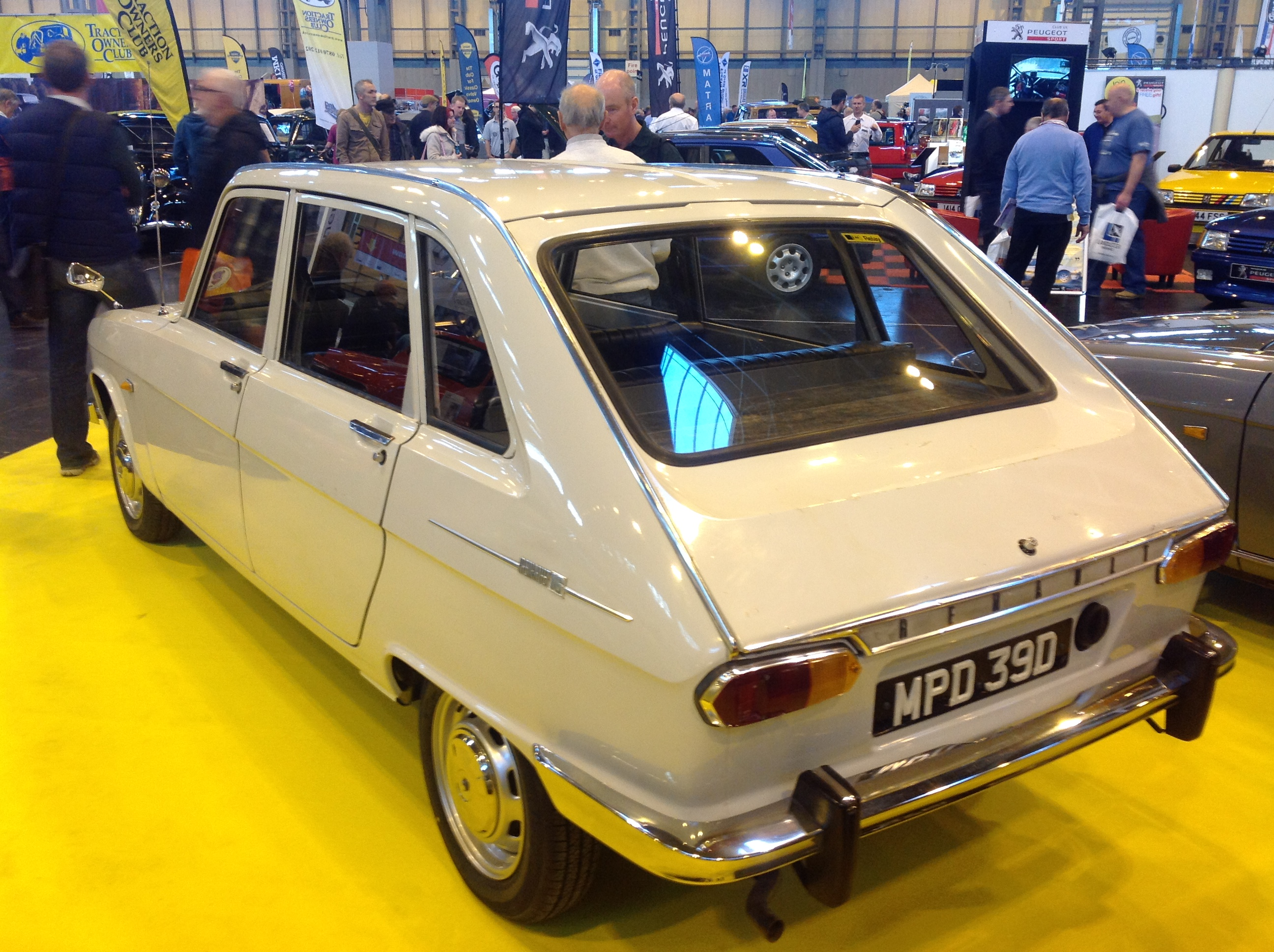 50 Years young. Renault 16 1965-2015. NEC Classic Car Show, 13 November 2015